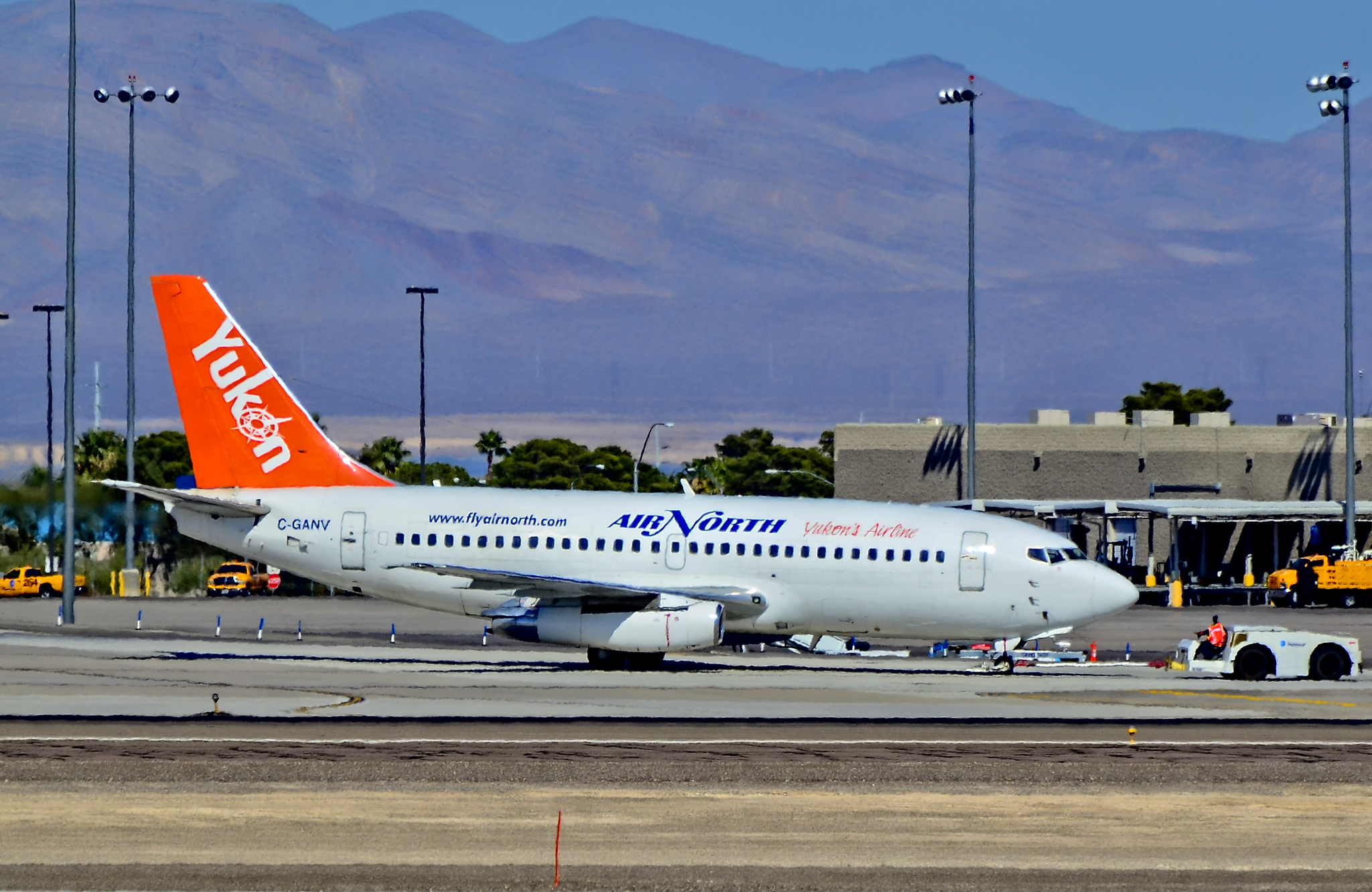 McCarran International Airport (KLAS) Las Vegas, Nevada TDelCoro October 24, 2013